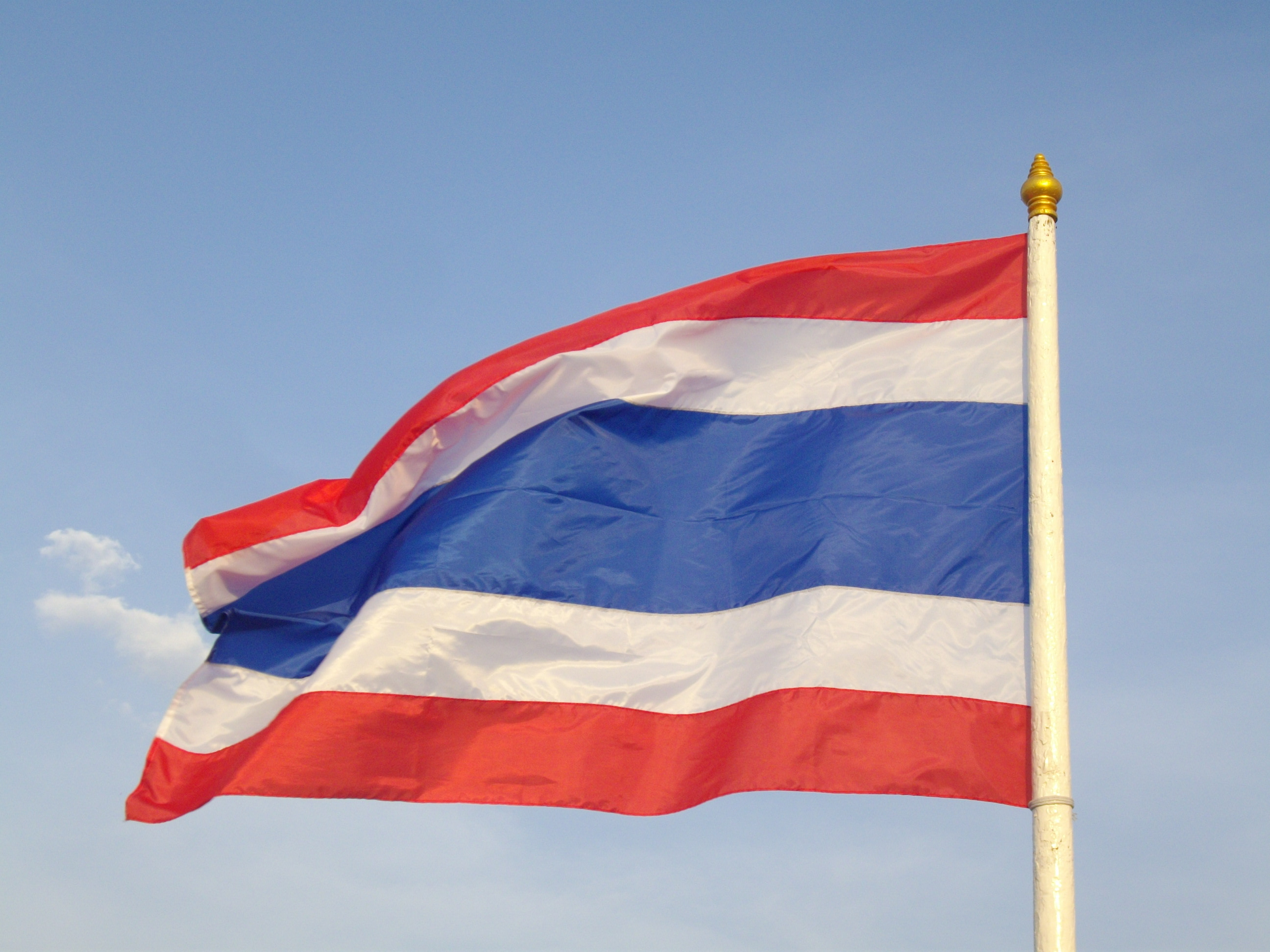 Flag of Thailand. This picture was taken at Sanam Luang in Vesak Day, 8th May 2009.